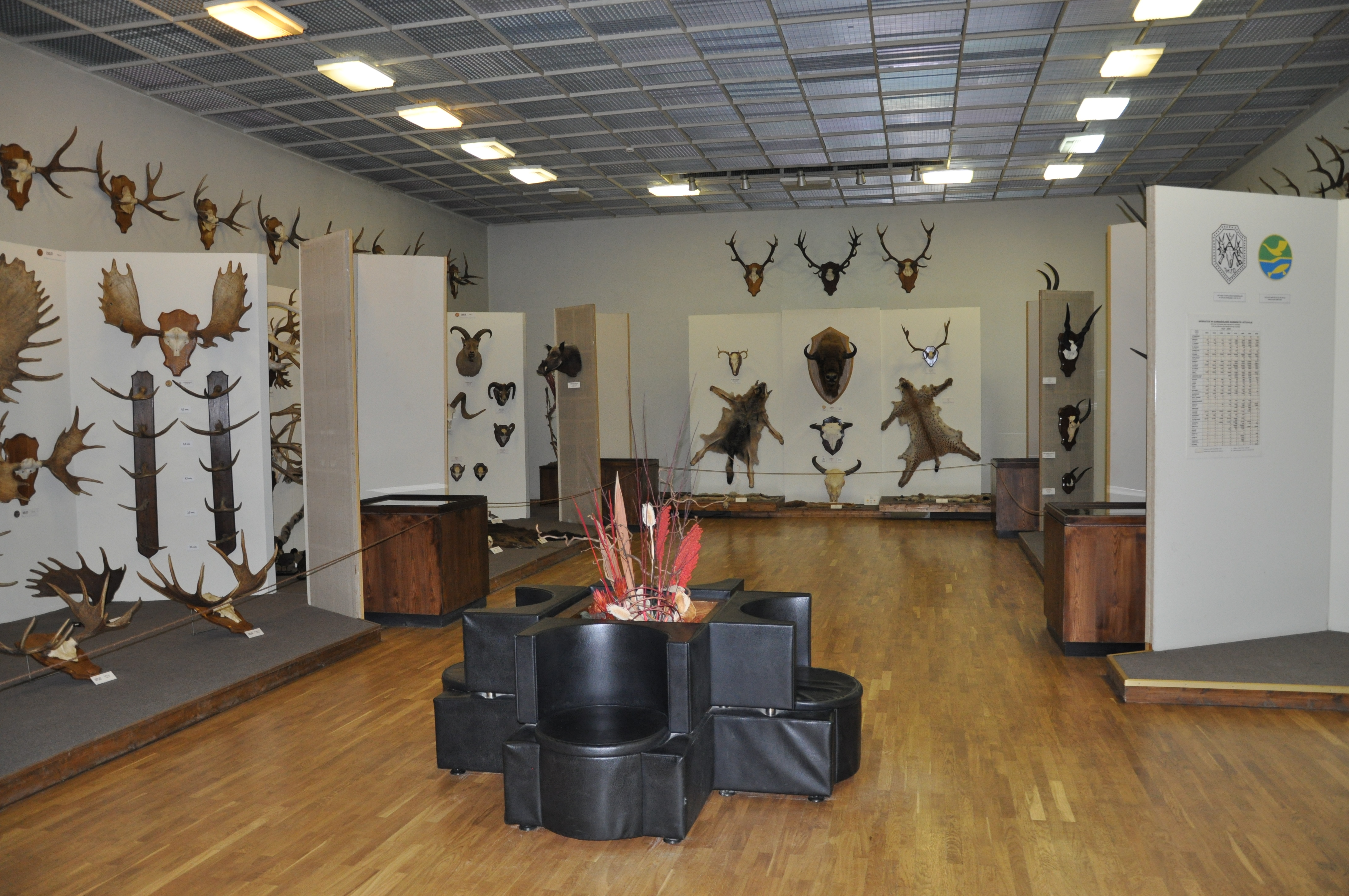 Kaunas Tadas Ivanauskas zoological museum: Hall of Hunting Trophies.